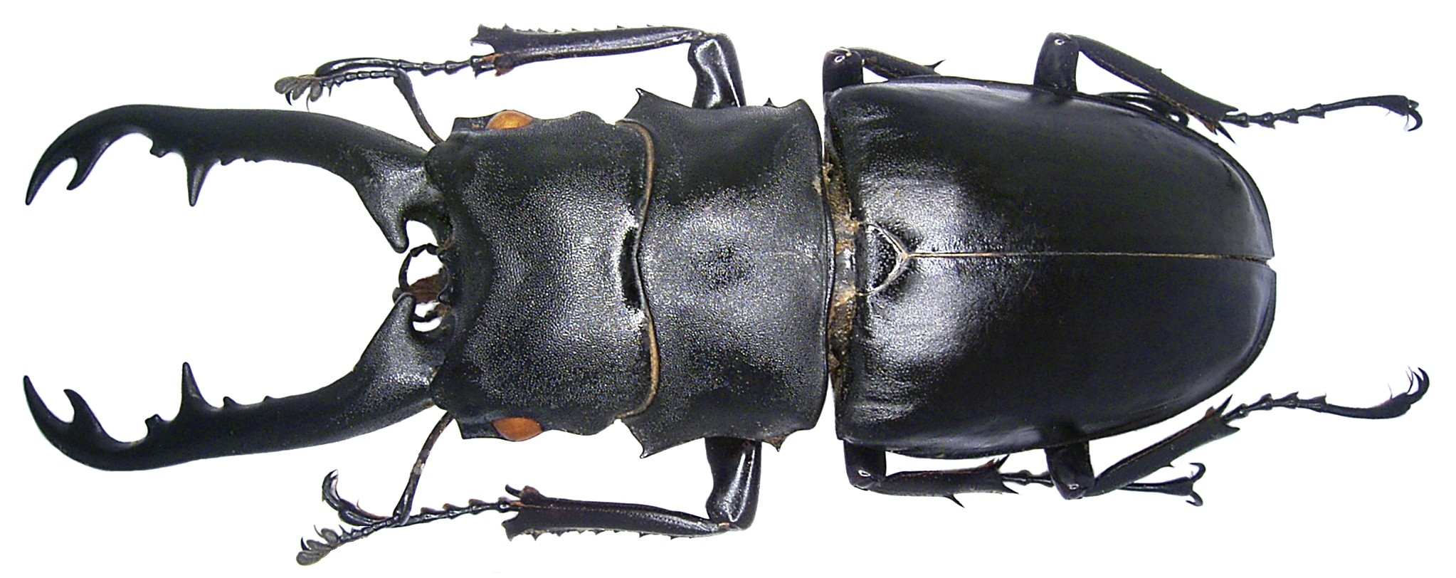 Family: Lucanidae Size: 58 to 98.3 mm Distribution: Indonesia (Sumatra, Java, Bali) Location: Indonesia, Sumatra leg 2006, det. U.Schmidt Photo: U.Schmidt, 2007